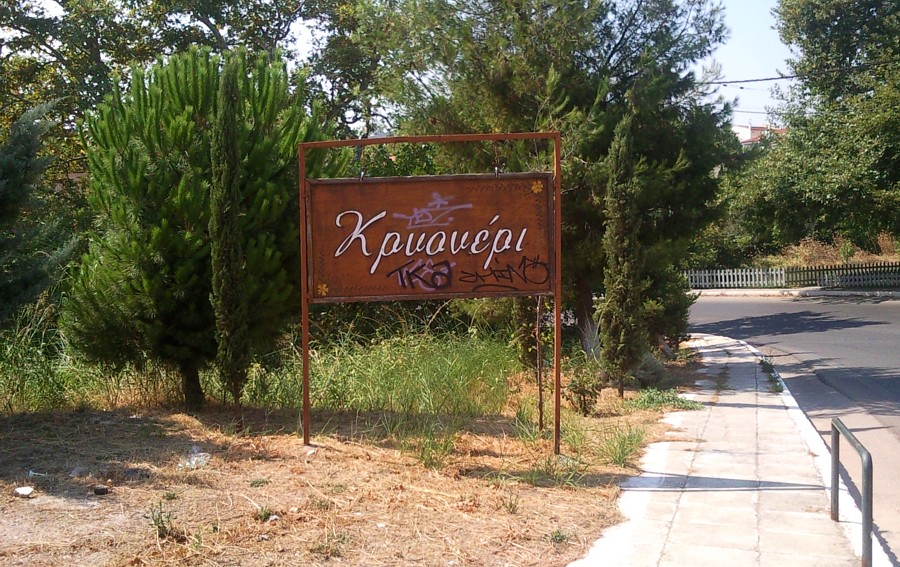 pinakida